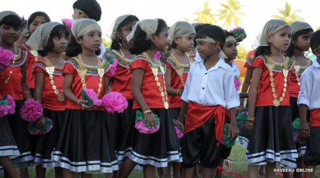 Hithadhoo School celebrating Republic Day